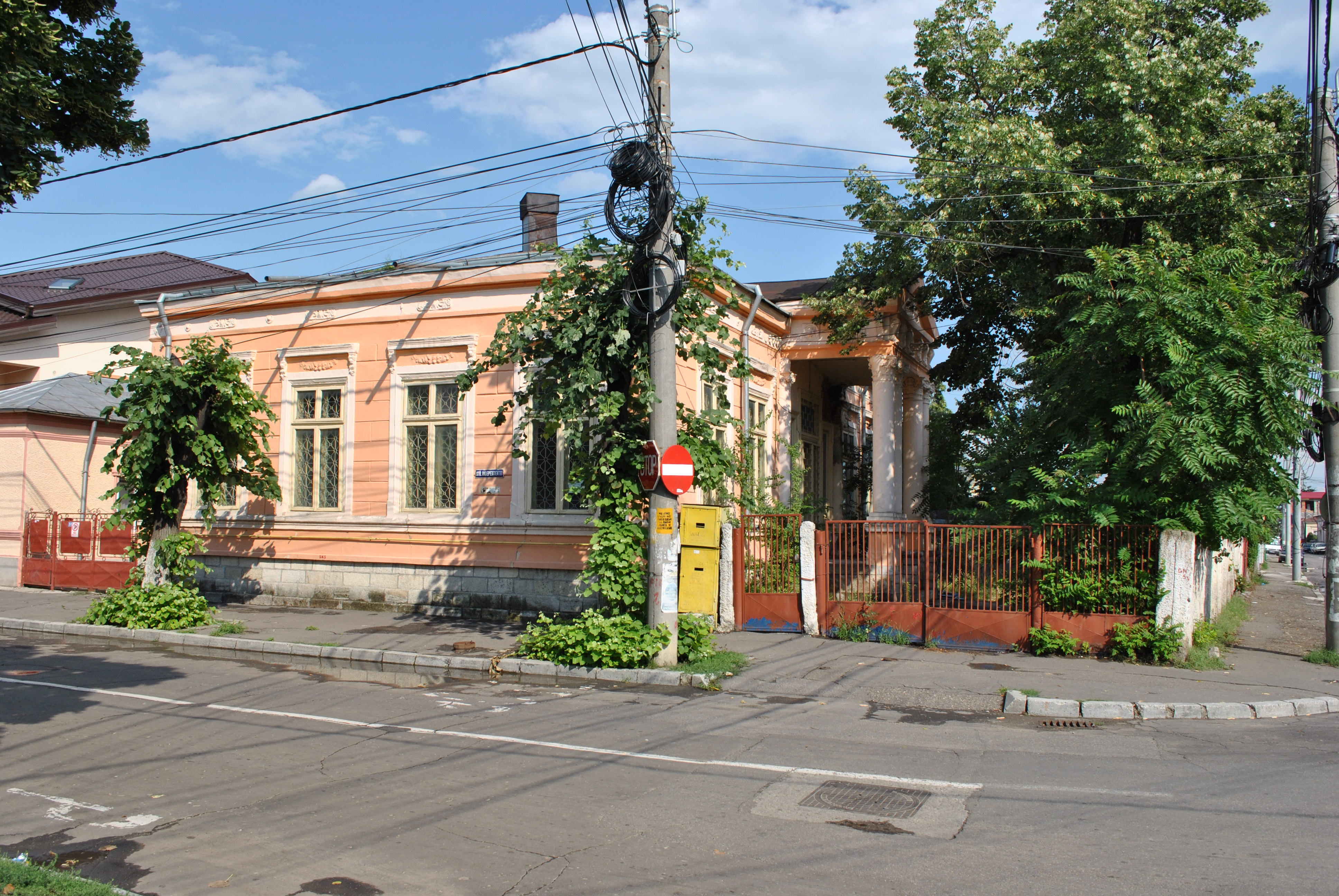 The Hortensia Papadat-Bengescu house in Buzău, RomaniaRomână: Casa în care a locuit Hortensia Papadat-Bengescu în Buzău, România